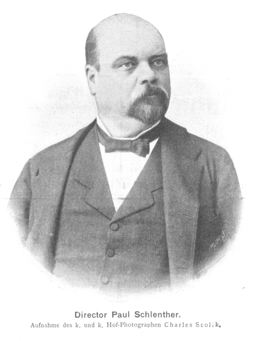 Portrait of Paul Schlenther (1854-1916), German writer, theater director and critic.